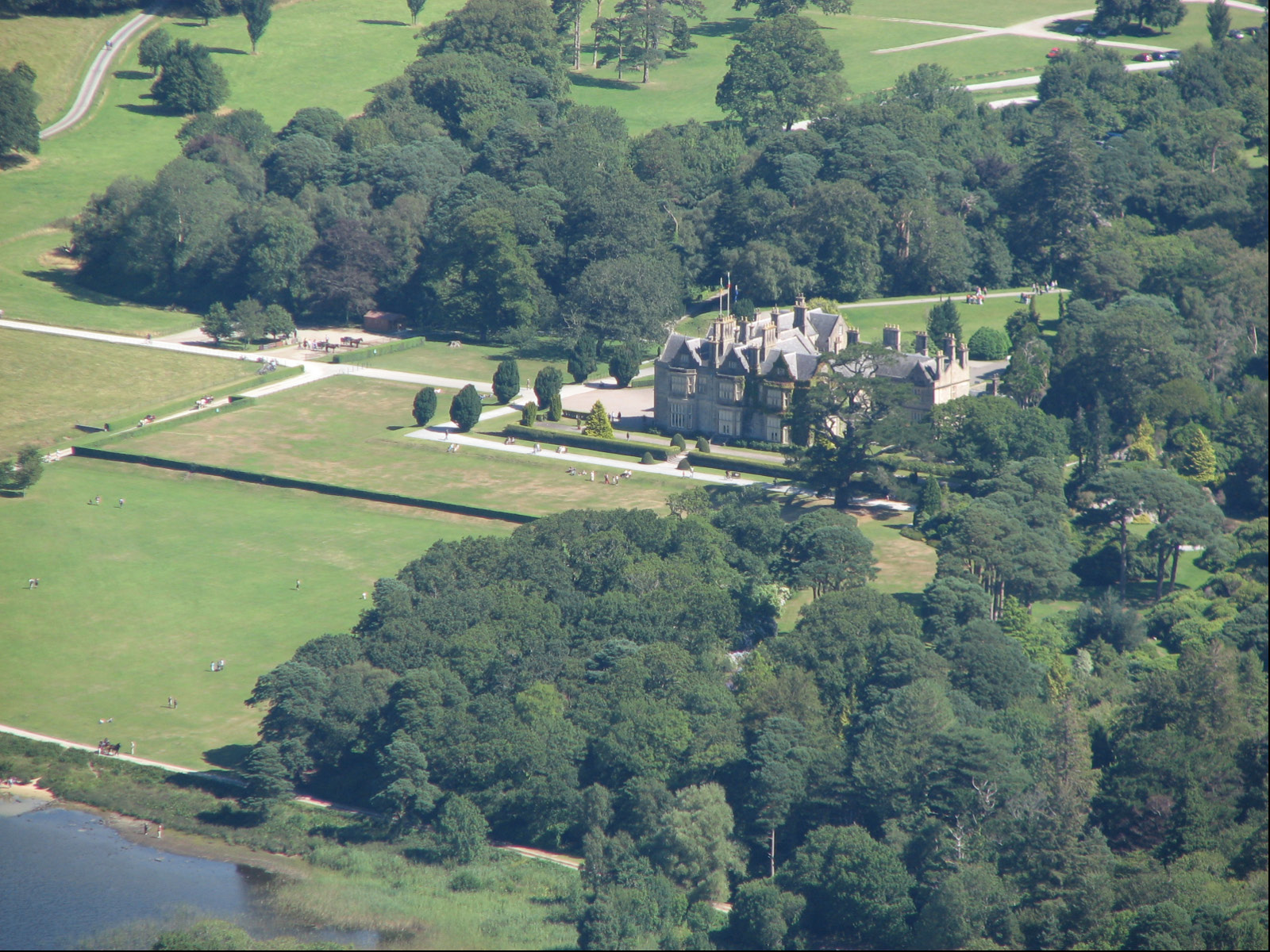 From the top of Torc looking at Muckross house in Killarney